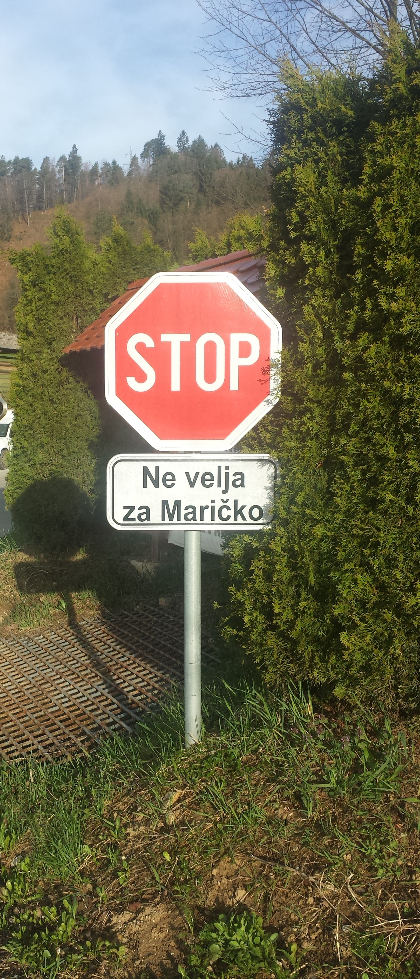 STOP sign on the road.